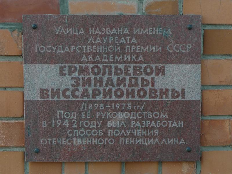 Memory board devoted to Ermolieva Zinaida Vissarionovna in the street with her name at Frolovo. Microbiologists Zinaida Ermolieva and T. I. Balezian were the first who get first samples of penicillin in 1942 in USSR.